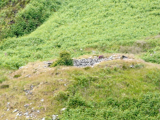 Broch near Ceann Ousdale